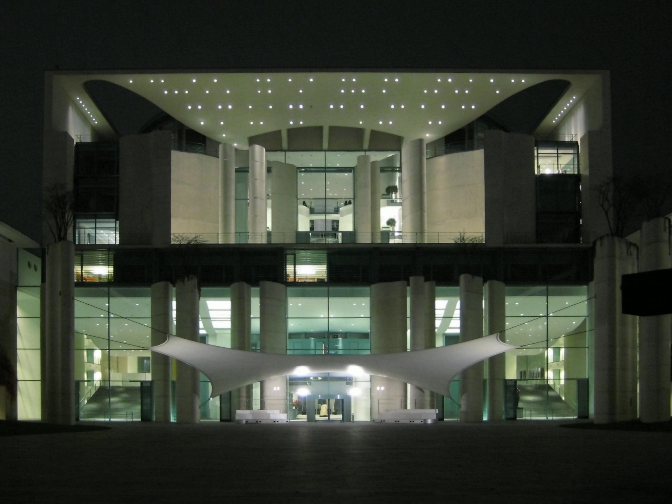 German Chancellery in Berlin